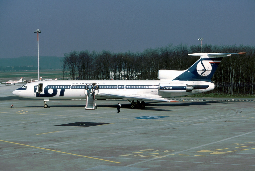 LOT Polish Airlines Tupolev Tu-154M